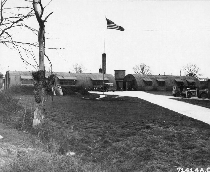 Headquarters buildings at Framlingham,Suffolk,England (Station 153) in March 1945.